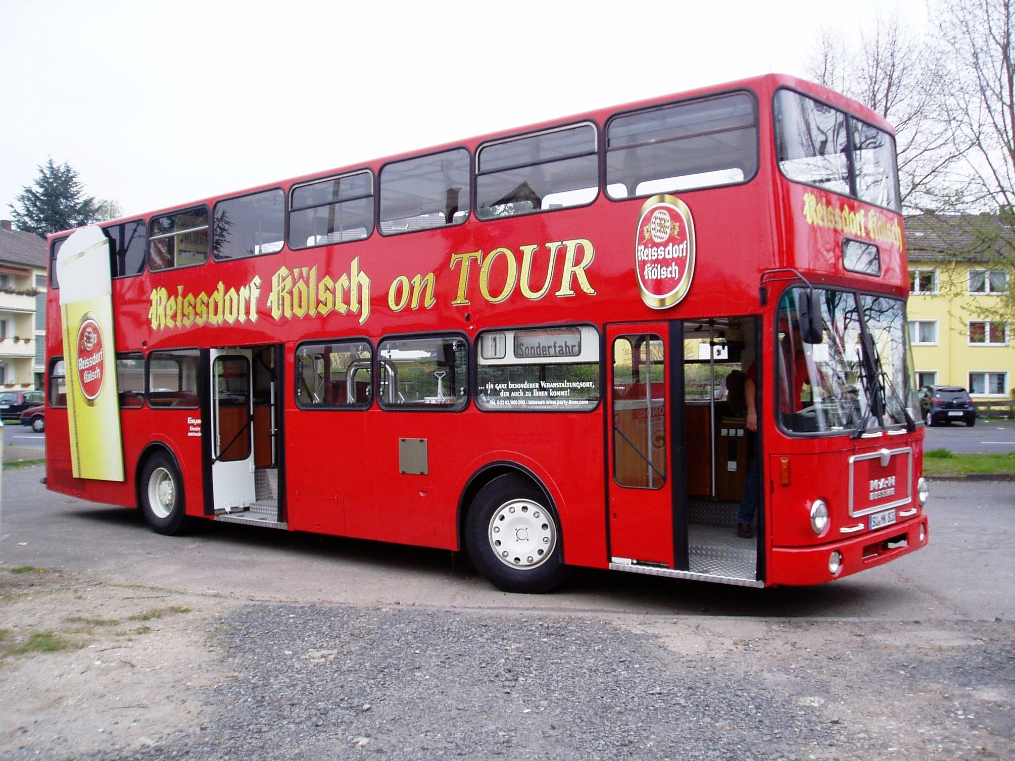 decommissioned Berlin double deck bus MAN SD 200 (SD75) as promotional bus for Reissdorf Kölsch beer in the Cologne borough of Merheim.